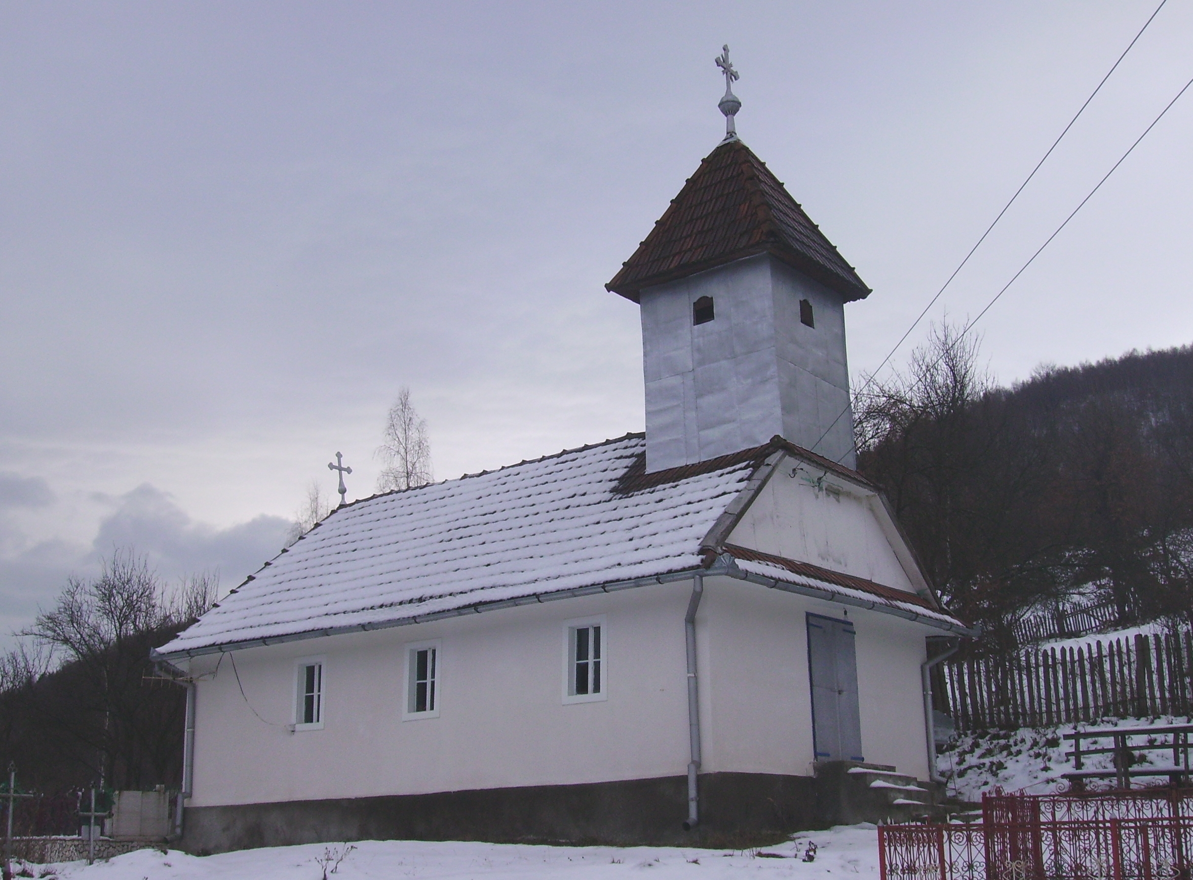 The wooden church in Cernișoara-Florese, Hunedoara county, Romania